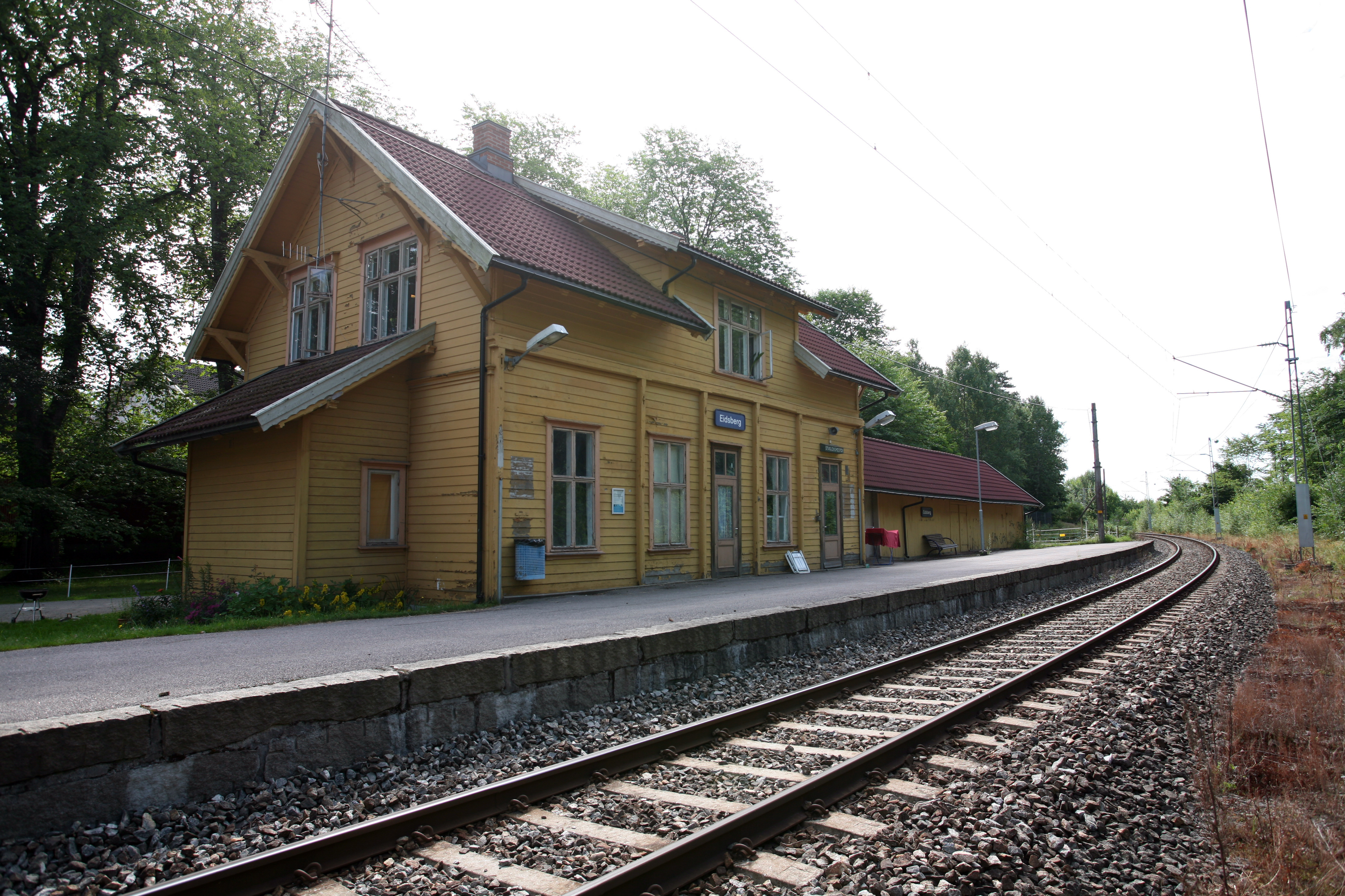 Picture of Eidsberg Railway Station (Norway) Norsk (bokmål): Bilde av Eidsberg stasjon